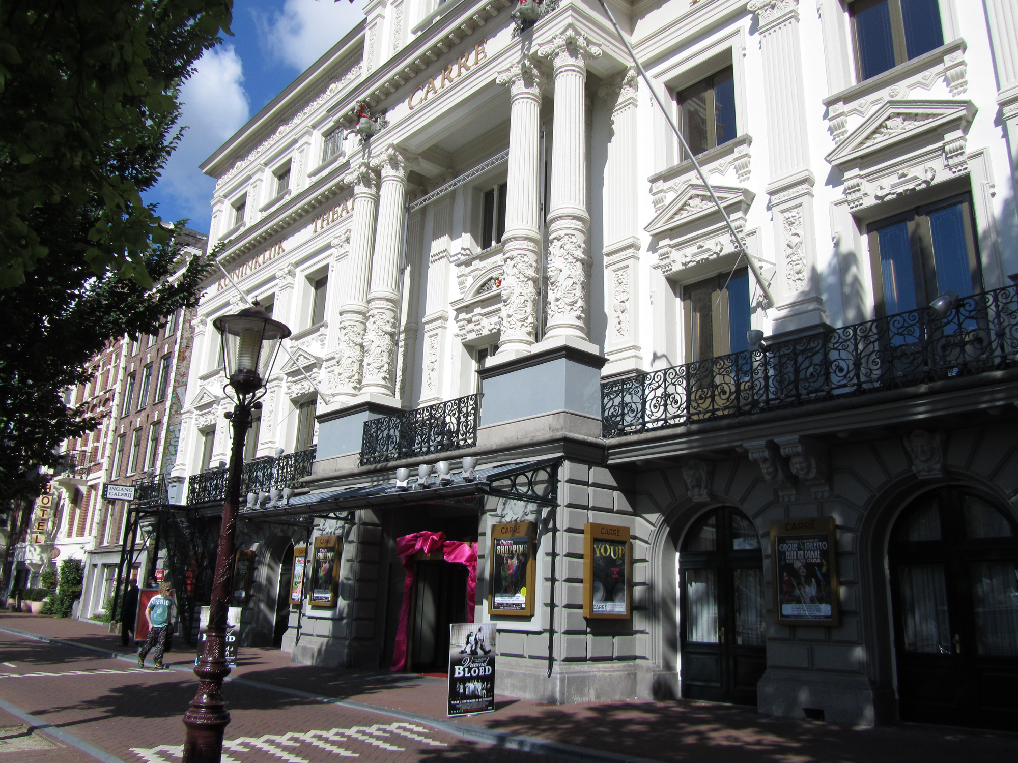 The Carré theatre in Amsterdam.